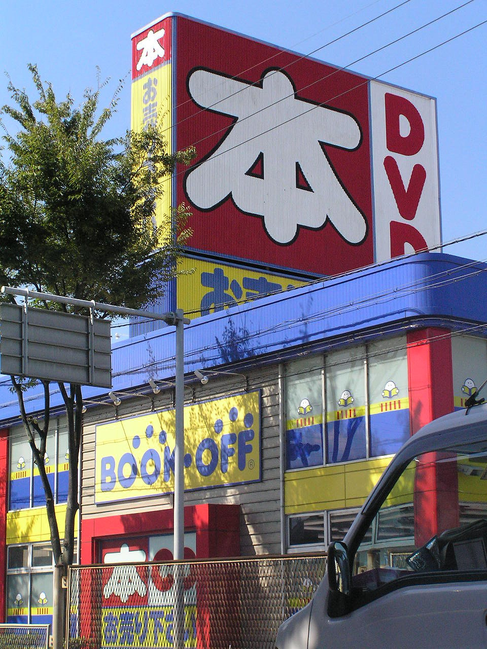 Book Off, shop selling used video games.